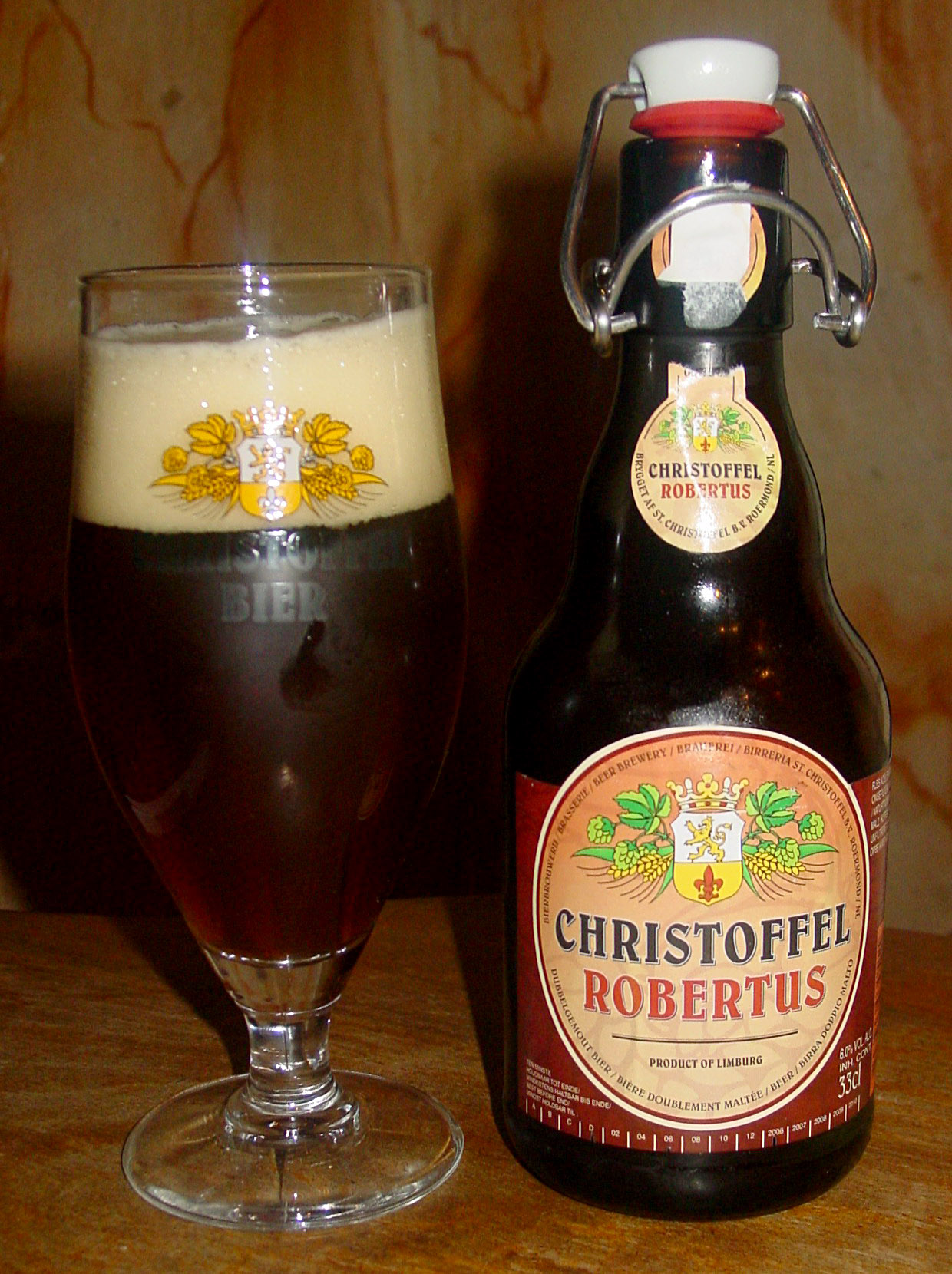 Christoffel Robertus, beer of the Netherlands